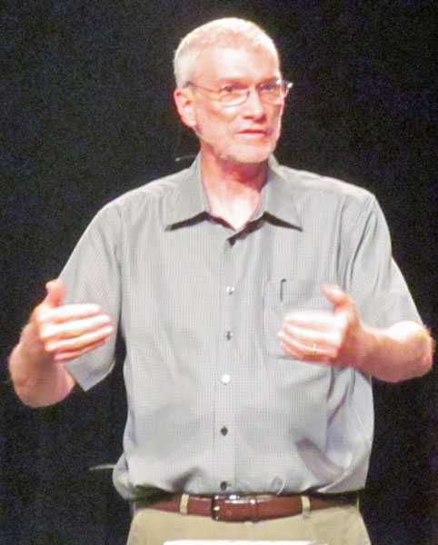 Ken Ham speaking at the Creation Museum's Legacy Hall